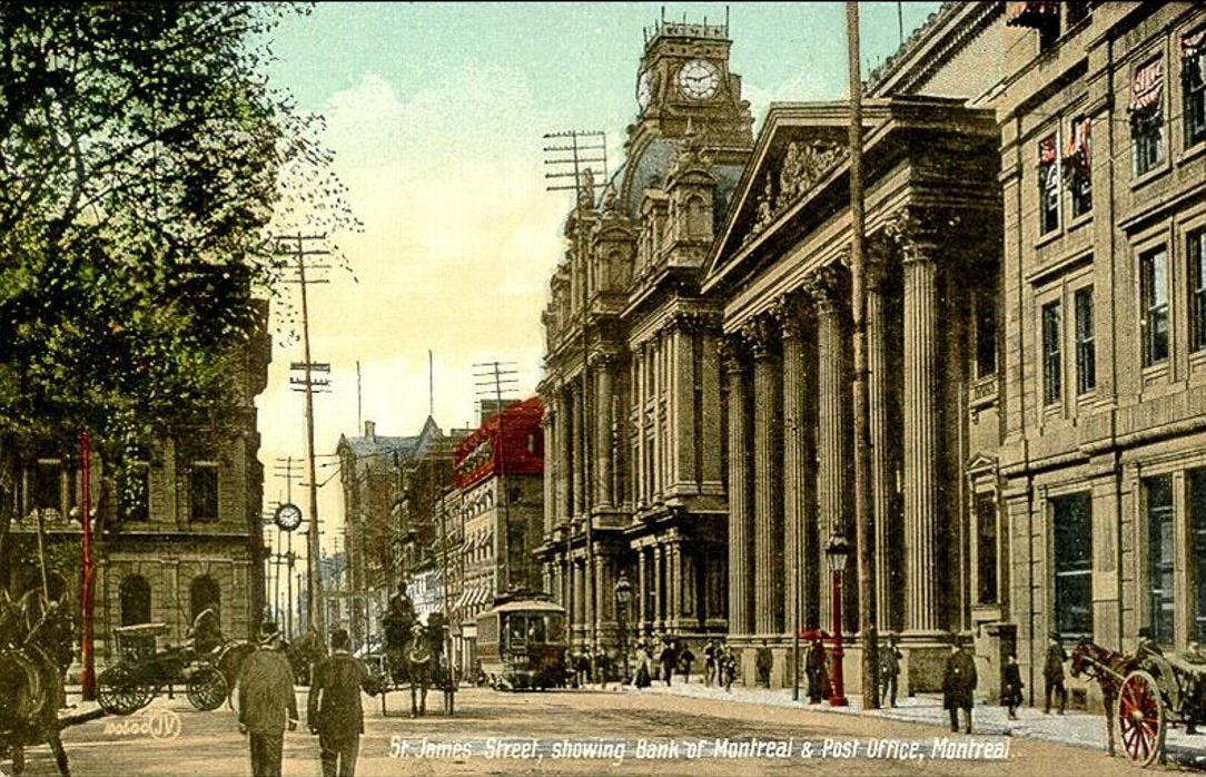 Postcard of St. James Street (rue Saint-Jacques) in Montréal, Quebec, Canada, showing the Bank of Montreal and the post office. Postcard published by The Valentine & Sons Publishing Co. (J.V.). Postcard postmarked on August 30, 1909.